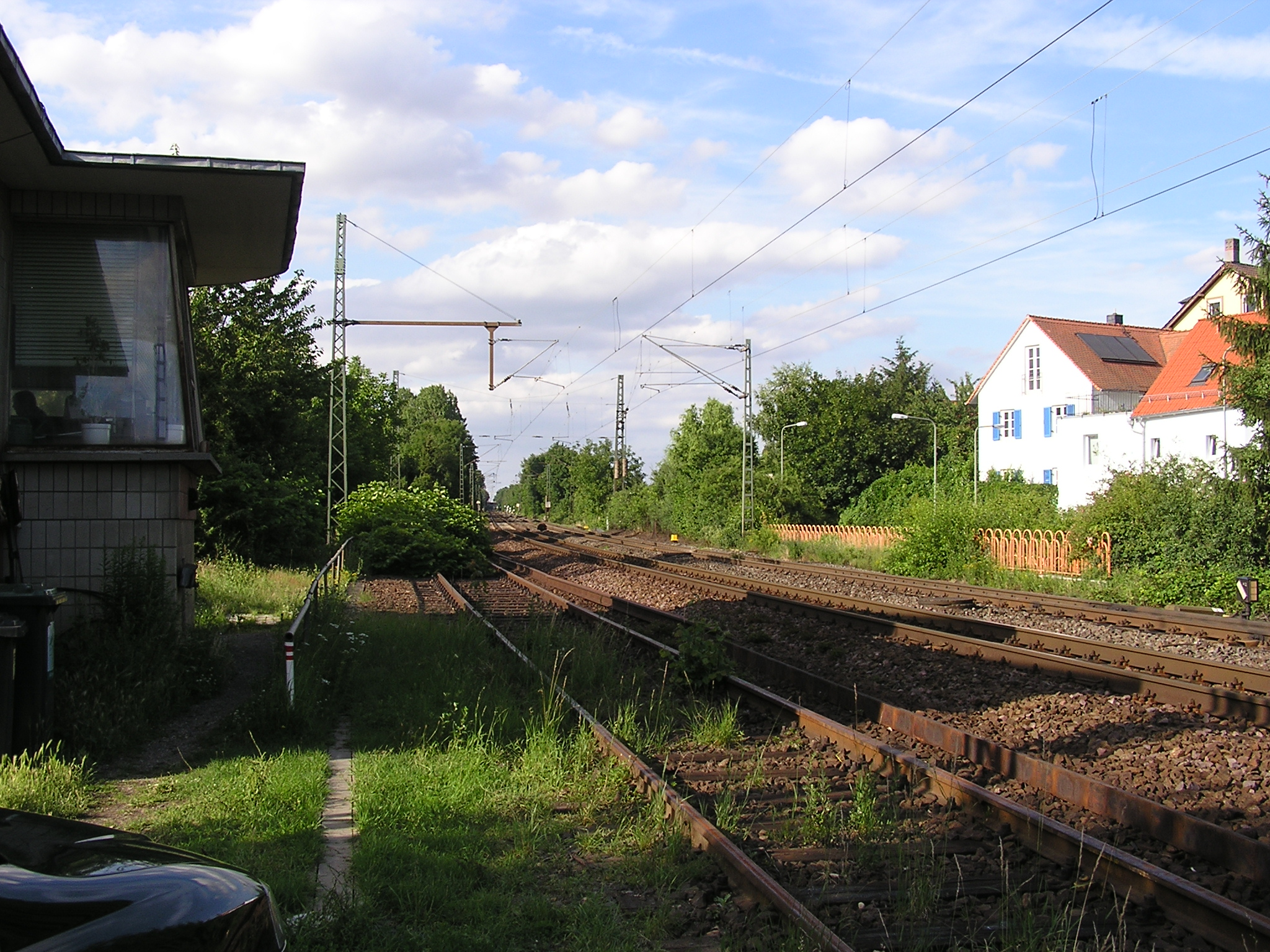 Northern end with signal box of the station Bundesgartenschau at the Main-Weser-Bahn. A reopening as Ffm-Ginnheim was planned when the photo was taken.